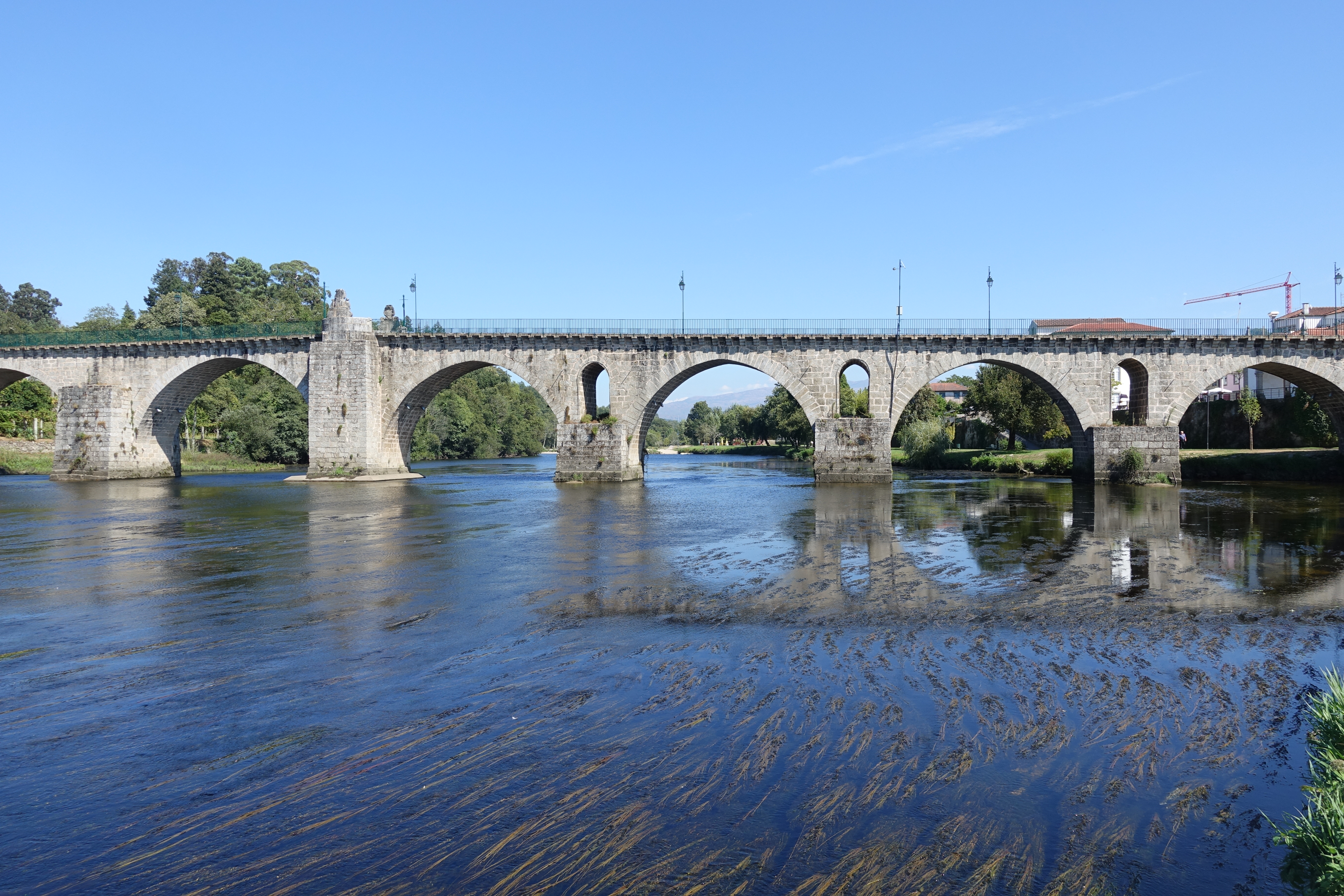 Ponte de Ponte da Barca Portugal.